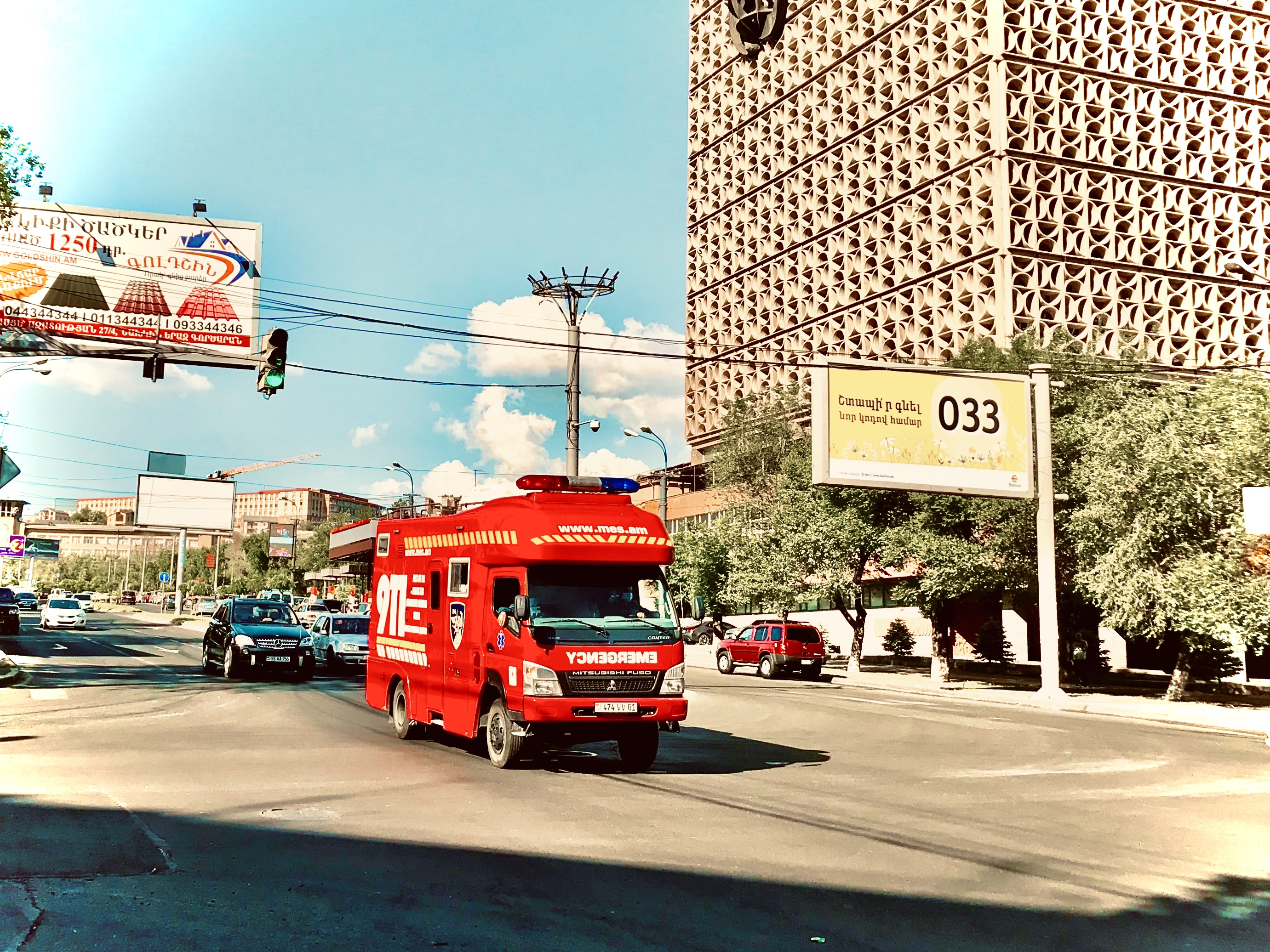 The State of Emergency in Armenia due to COVID-19 pandemic in 2020